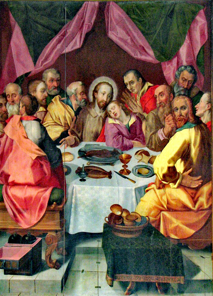 S. Maria Church in Flensborg, last supper Photo by author Jens Christensen